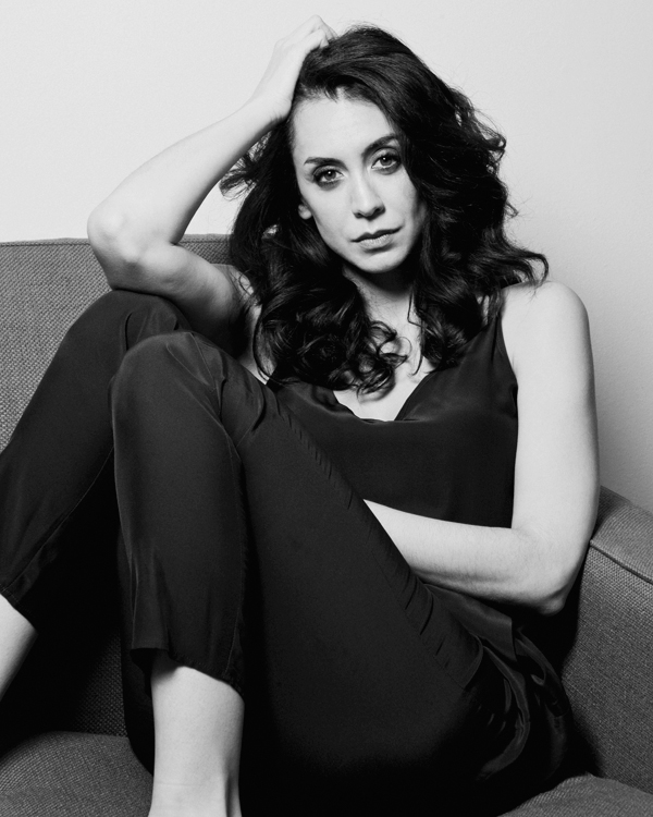 Mozhan Marno, Brooklyn.